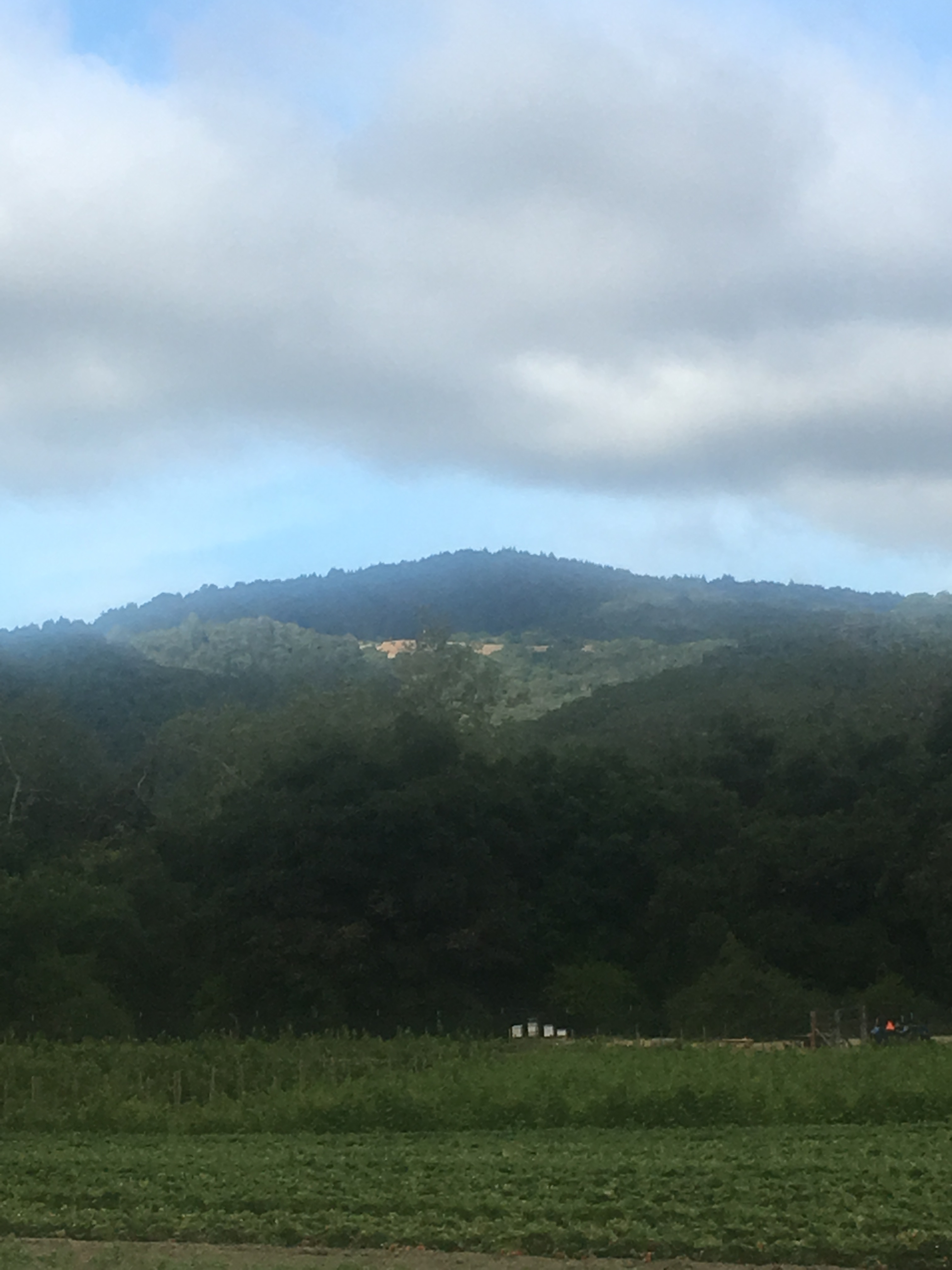 View of Mount Madonna near Chitactac-Adams Heritage County Park outside of Gilroy, California.